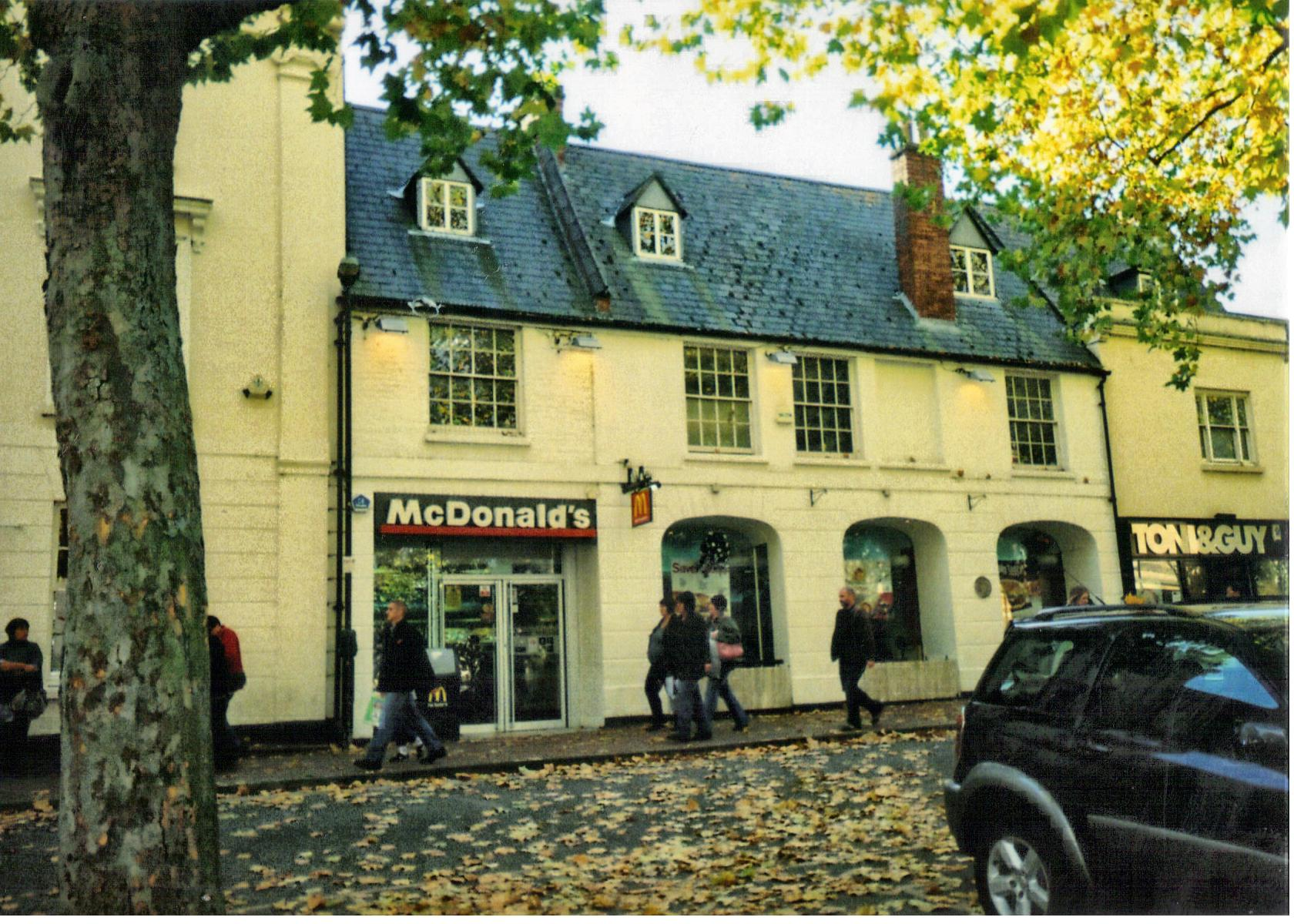 The McDonald's restaurant in Banbury's Bridge Street in 2010.